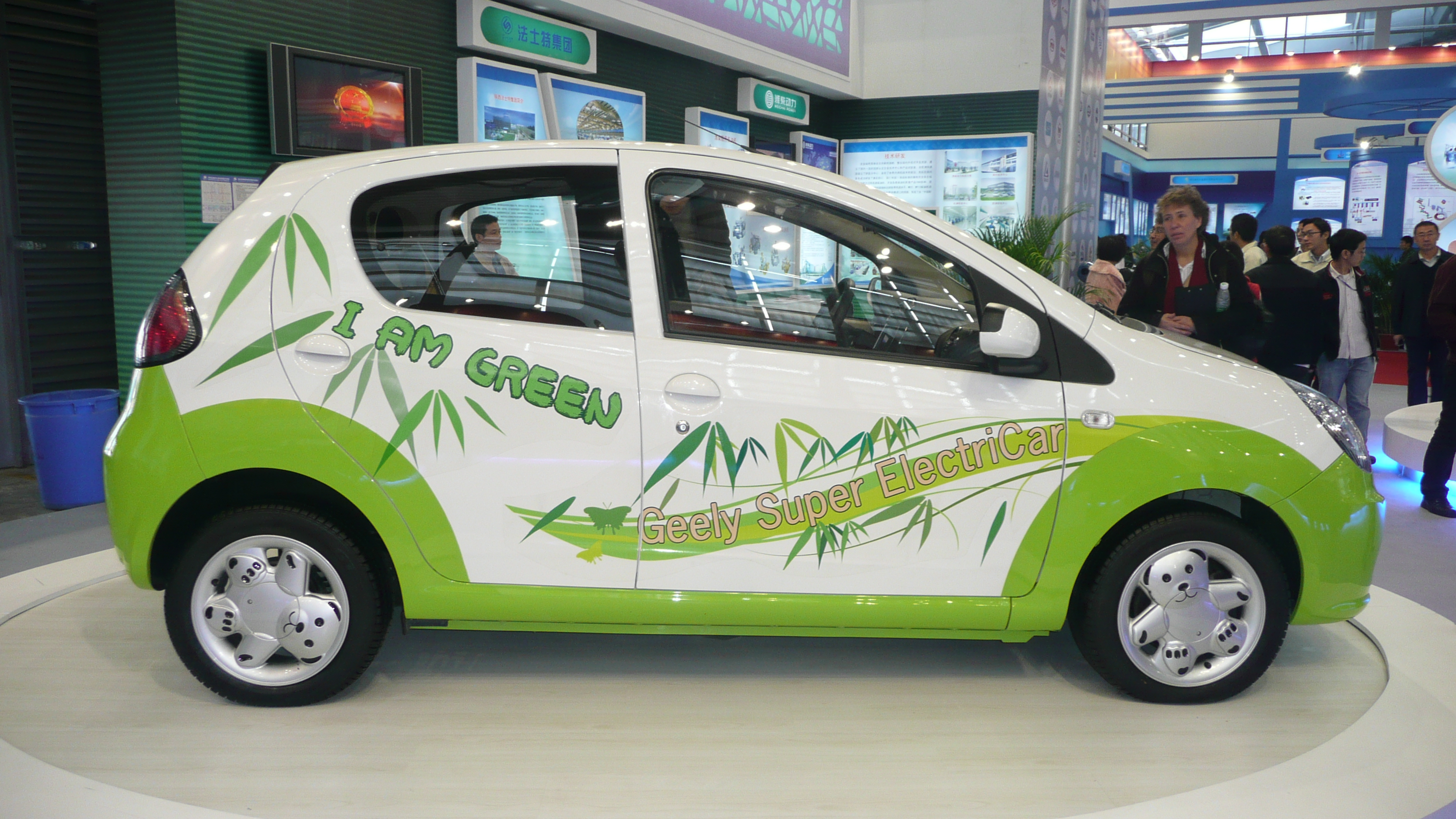 Geely's electrocar Panda at the China High-Tech Fair in Shenzhen, November 2009